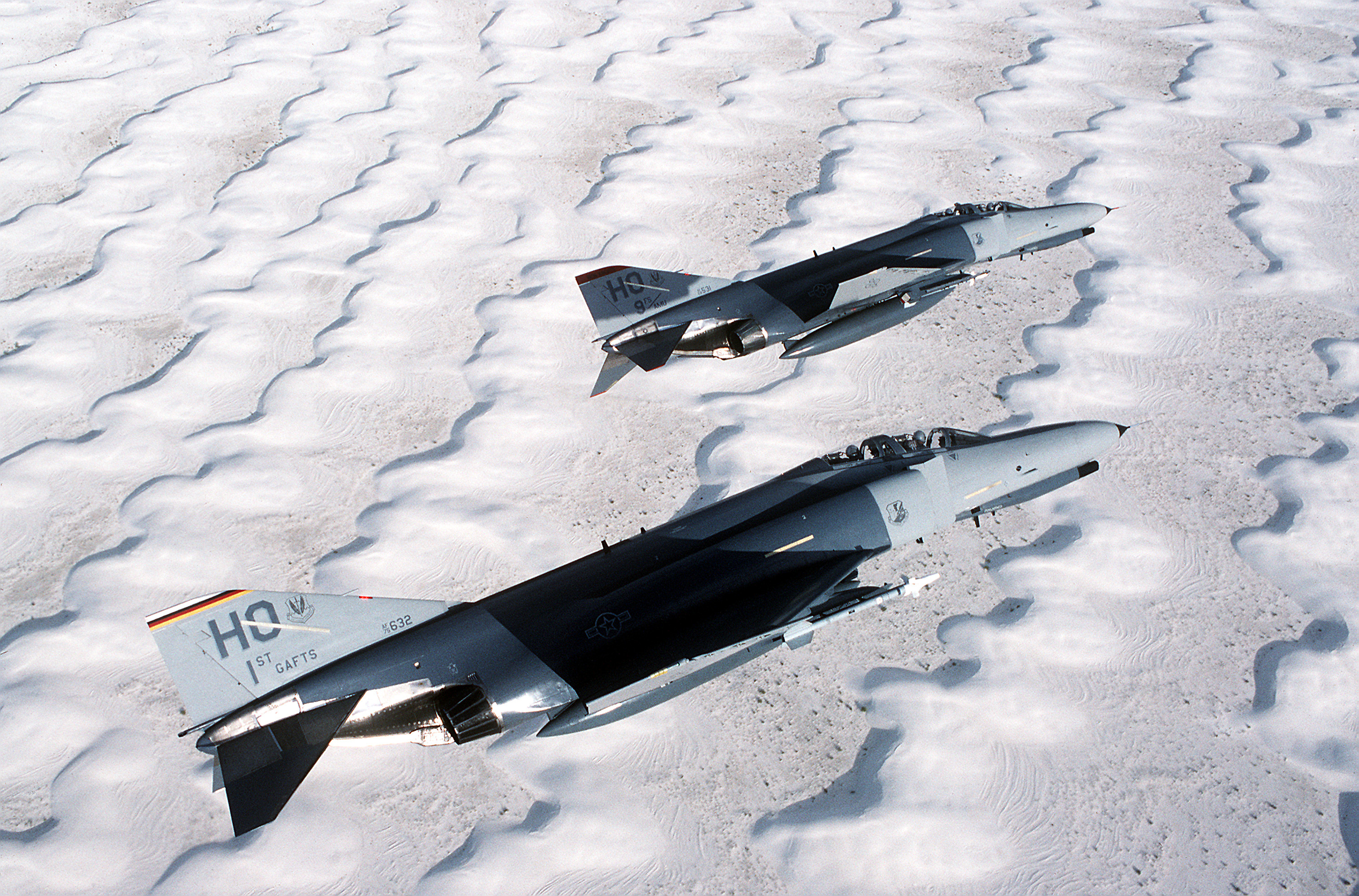 A pair of McDonnell Douglas F-4E Phantom II aircraft, one from the Luftwaffe's 1st German Air Force Training Squadron (F-4E-63-MC, s/n 75-0632) and one from the U.S. Air Force 9th Fighter Squadron (F-4E-41-MC, s/n 68-0531), bank to the left during a training mission near Holloman Air Force Base, New Mexico (USA), on 1 August 1992.